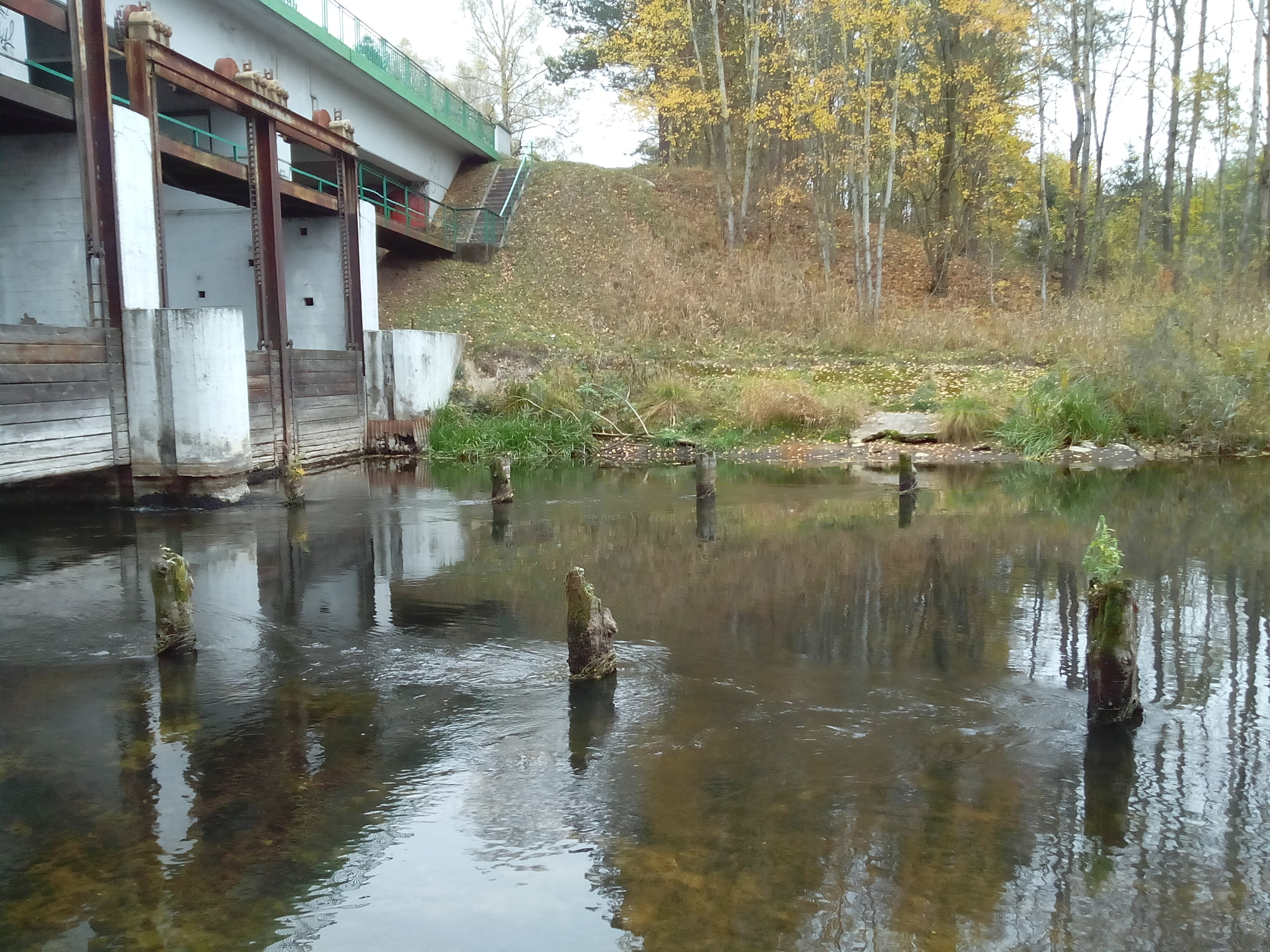 Bridge remains of Barkweda (before 1945 Bergfried) over Pasłęka river 2014